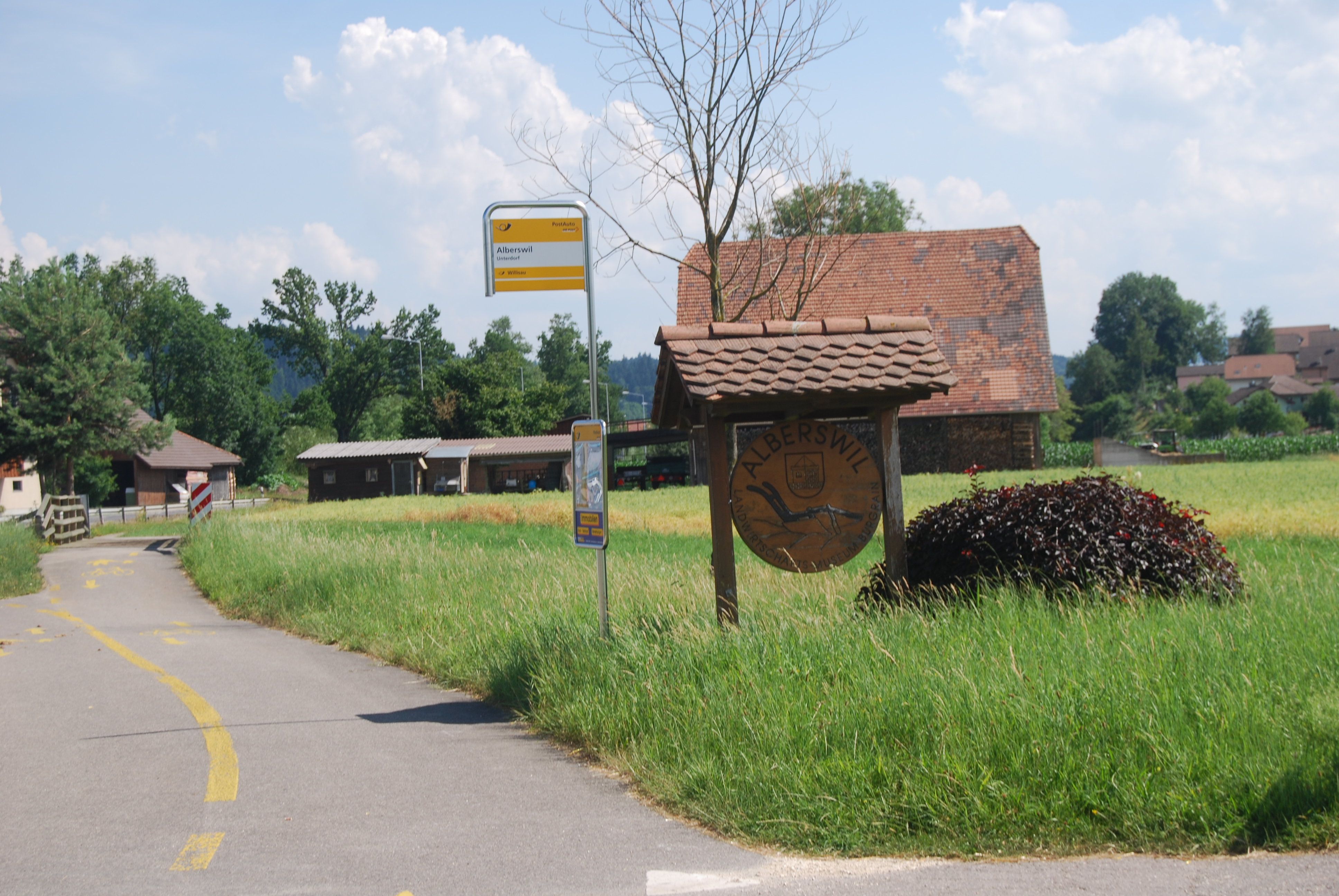 Bus stop near the village entry of Alberswil, canton of Luzern, SwitzerlandEsperanto: Bushaltejo apud la vilaĝeniro de Alberswil, Kantono Lucerno, Svislando